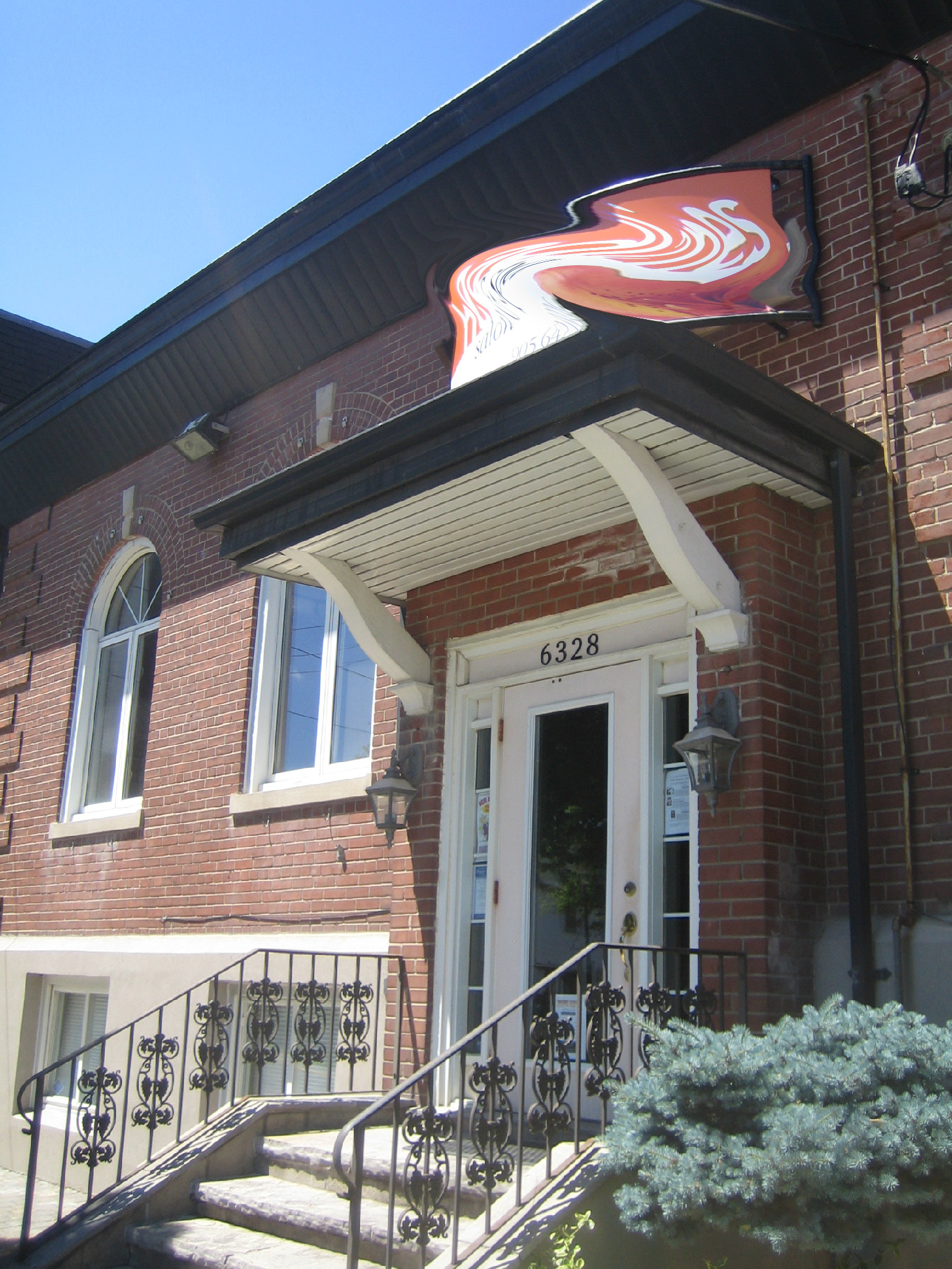 Stouffville Public Library, built on Main St., Stouffville, Ontario, in 1923 with a Carnegie Foundation Grant. The building was owned in 2011 by a hair salon